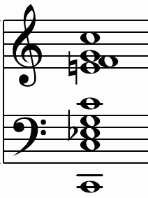 some partials of a c0 bell